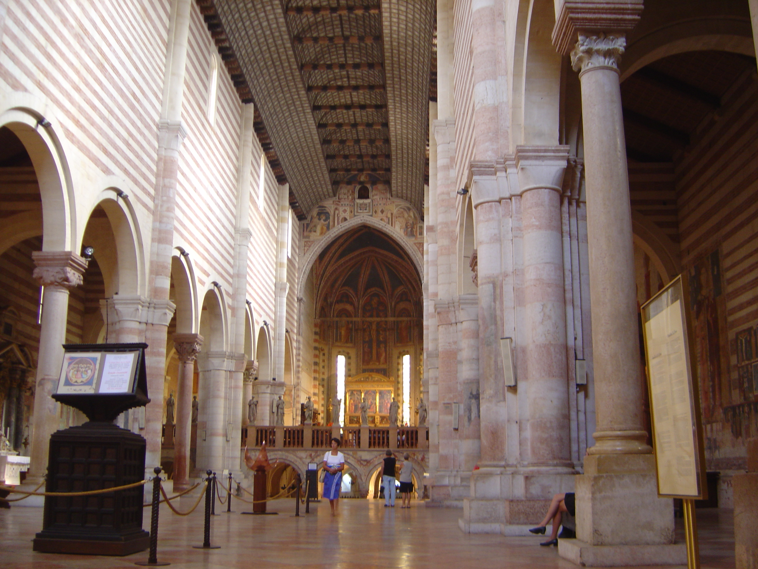 San Zeno basilica, Verona, Italy